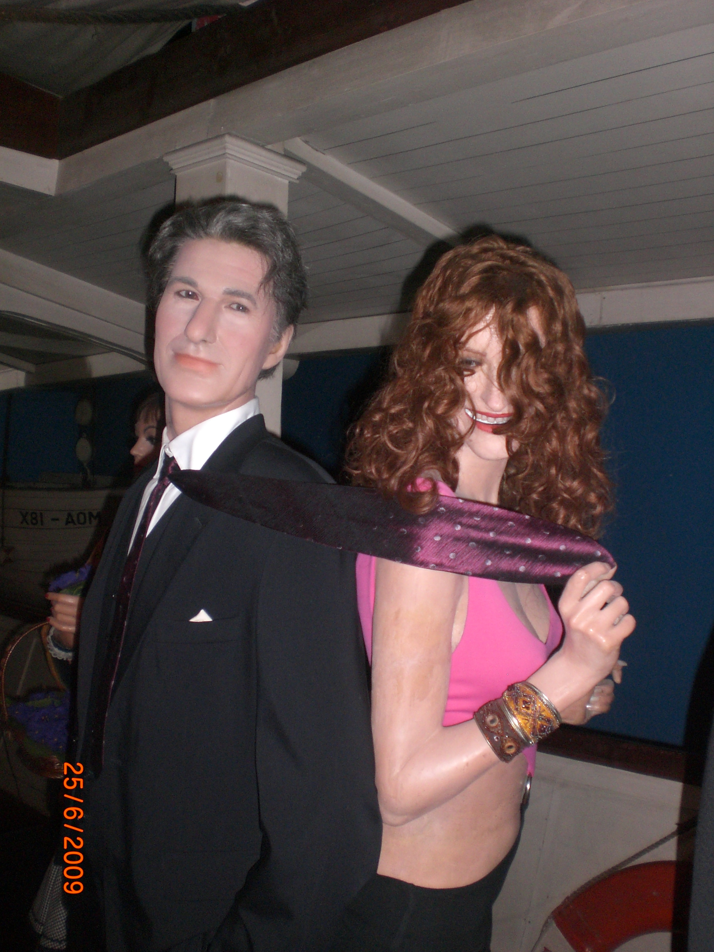 Museu de Cera de Barcelona (Richard Tiffany Gere and Julia Roberts )